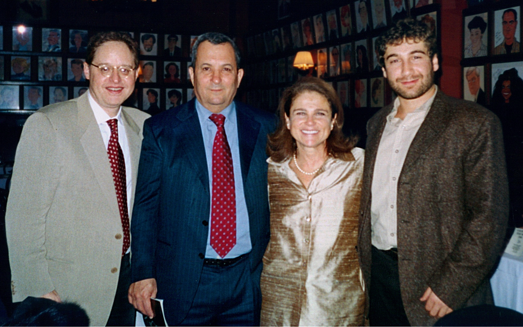 (left to right): David Fishelson, Ehud Barak, Tovah Feldshuh and Scott Schwartz at Sardi's, October 2004.